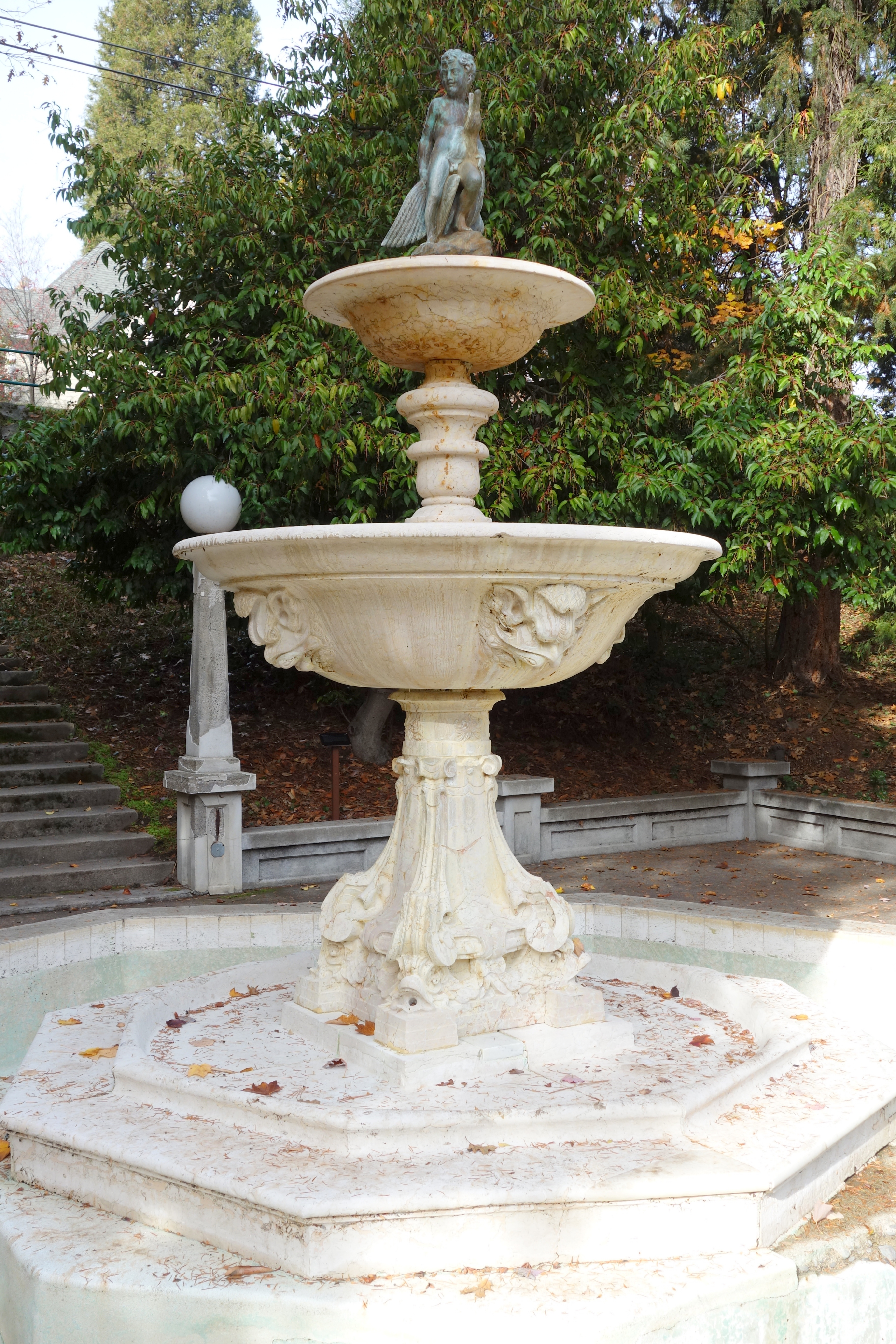 Butler-Perozzi Fountain in Lithia Park, Ashland, Oregon, USA. Created by Antonio Frilli, Florence, Italy. Installed in 1916. This artwork is in the public domain because Antonio Frilli died more than 70 years ago (1902).